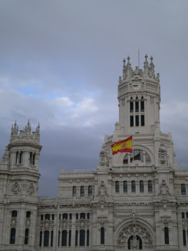 The plaza is a landmark of Madrid and it is famous for the Cibeles Palace (City Hall), and the fountain of the same name.